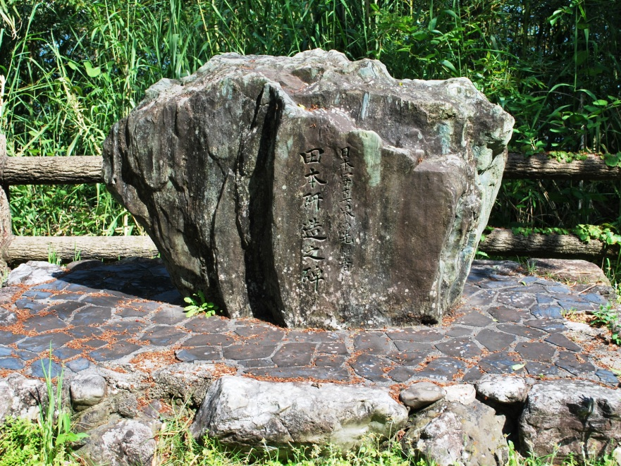 Tamoto Kenzo Monument at Oniga-jo